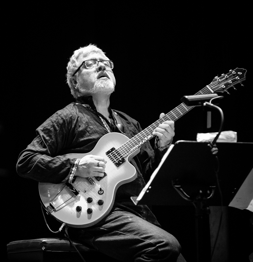 Fareed Haque in a concert with Billy Cobham at Cosmopolite. The concert took place on 09. March 2019 in Oslo. Lineup: Billy Cobham (drums) Paul Hanson (saxophone and bassoon) Fareed Haque (guitar) Tim Landers (bass guitar) Scott Tibbs (synthesizer and rhodes)